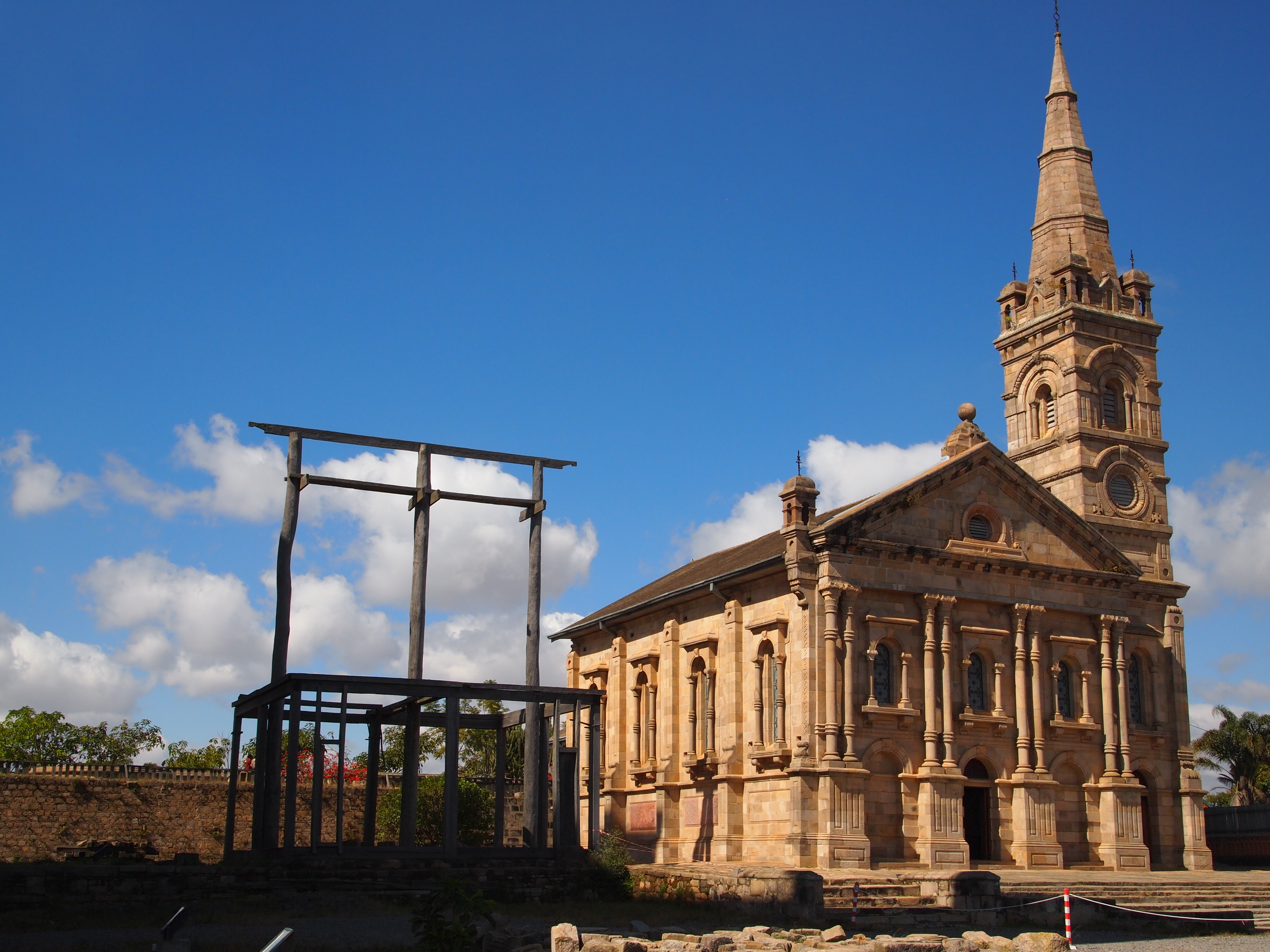 Royal chapel exterior and Besakana reconstruction at Rova of Antananarivo Madagascar 2013